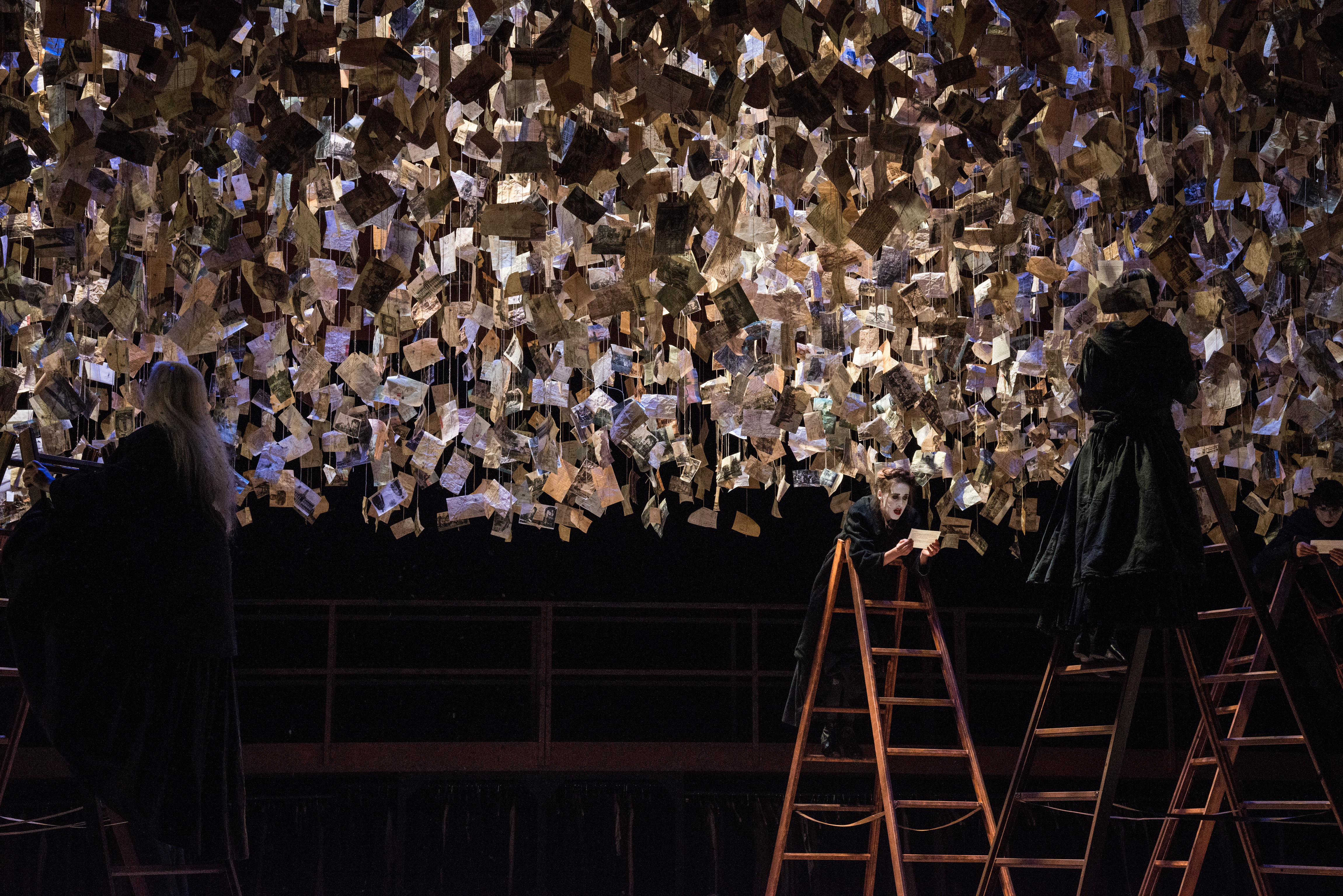 Don Juan kommt aus dem Krieg, Salzburger Festspiele 2014